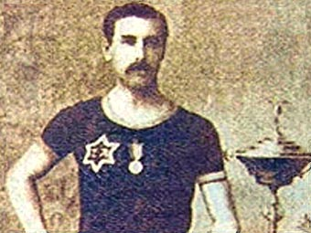 Charles Bennett, winner in track & field 1500m at the 1900 Olympic Games photography, adapted reproduction, no restrictions on use